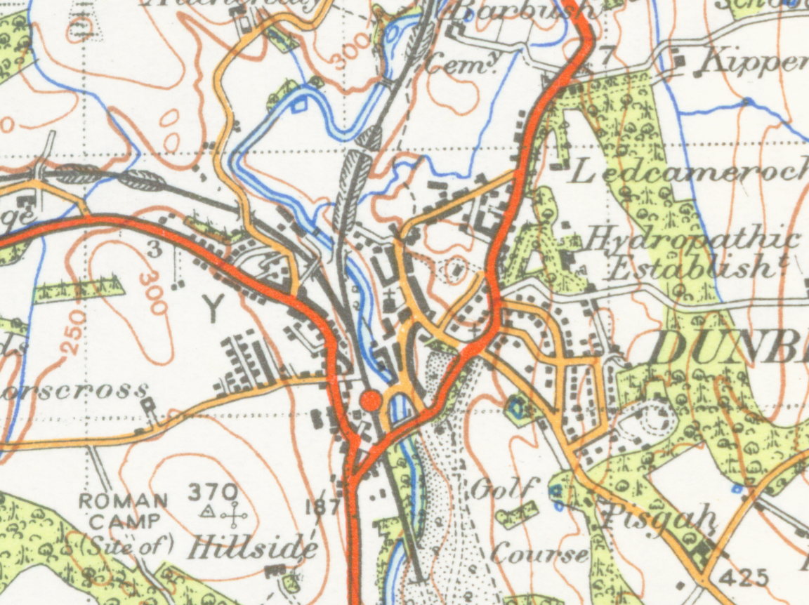 map of Dunblane 1 inch to the mile scale scanned at 600 DPI